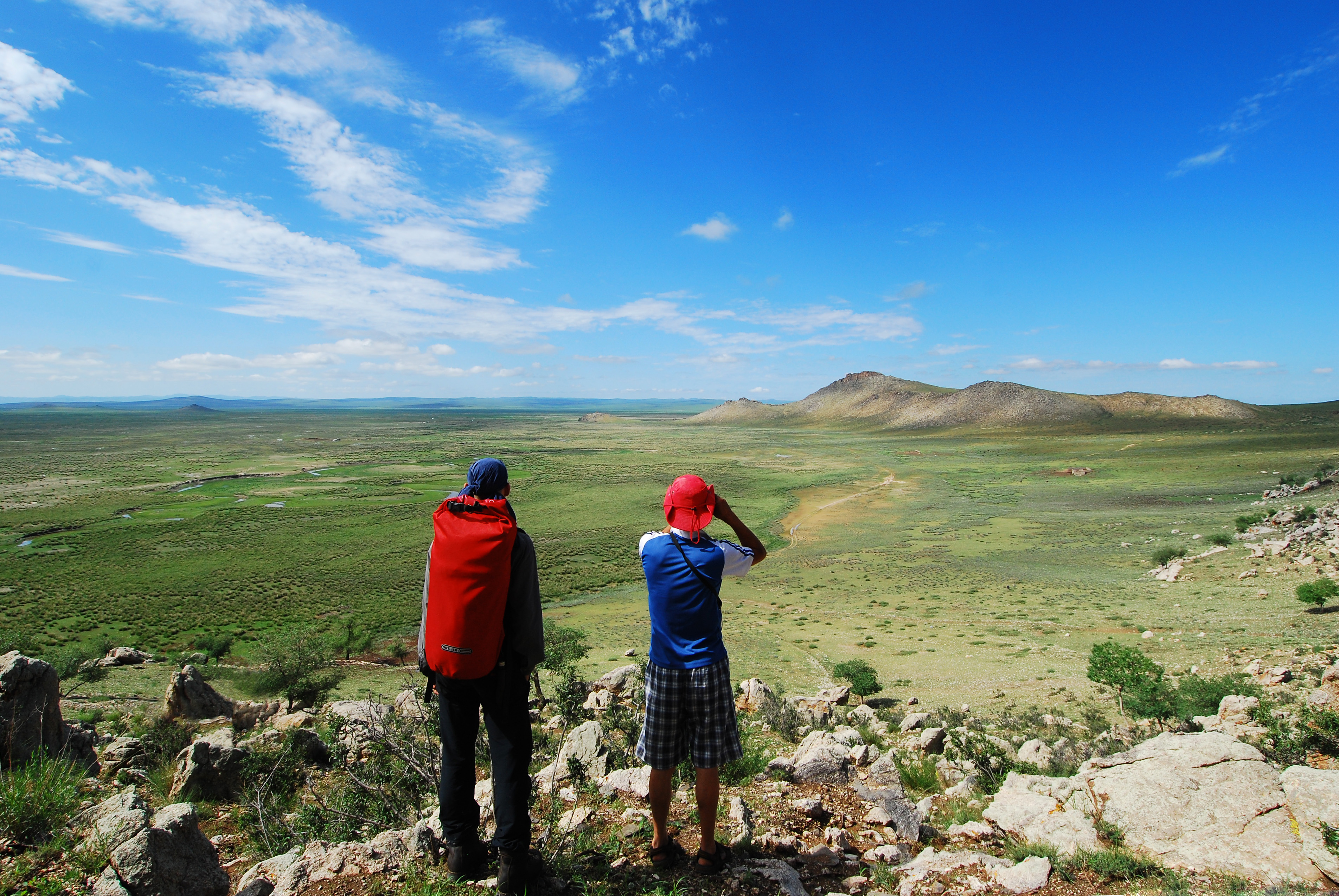 Orchon area in Mongolia; Bulgan-Aimag south of Gurvanbulag